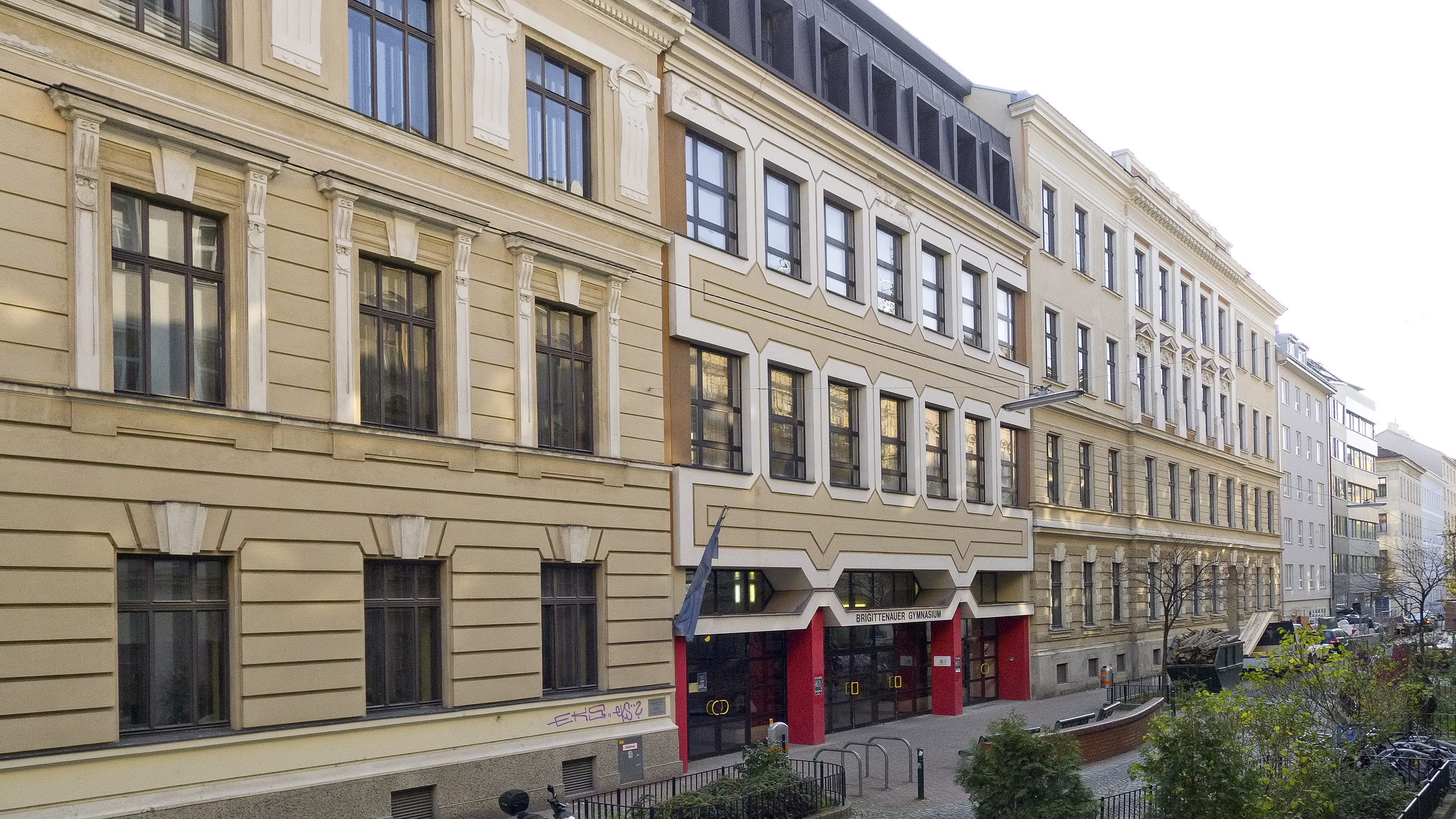 High school Brigittenauer Gymnasium in Vienna 20